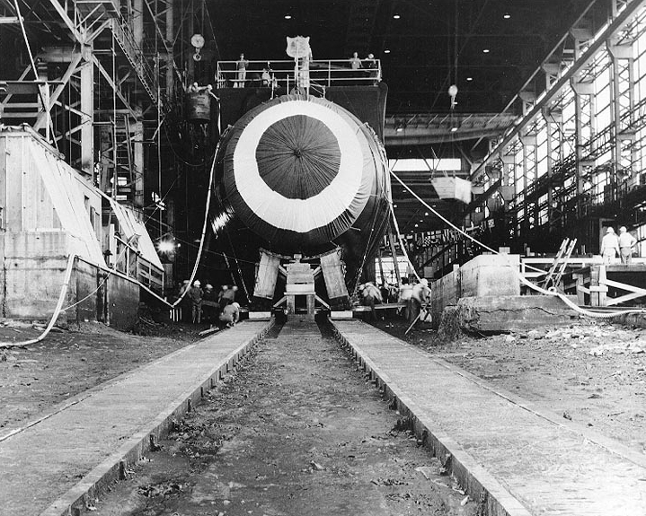 USS Thresher (SSN-593): Bow view of the submarine on the greased building ways, as workmen prepare for her launching at the Portsmouth Naval Shipyard, Kittery, Maine, 9 July 1960. Photo #: NH 97553 Official U.S. Navy Photograph, from the collections of the Naval History Haritage Command (NHHC)